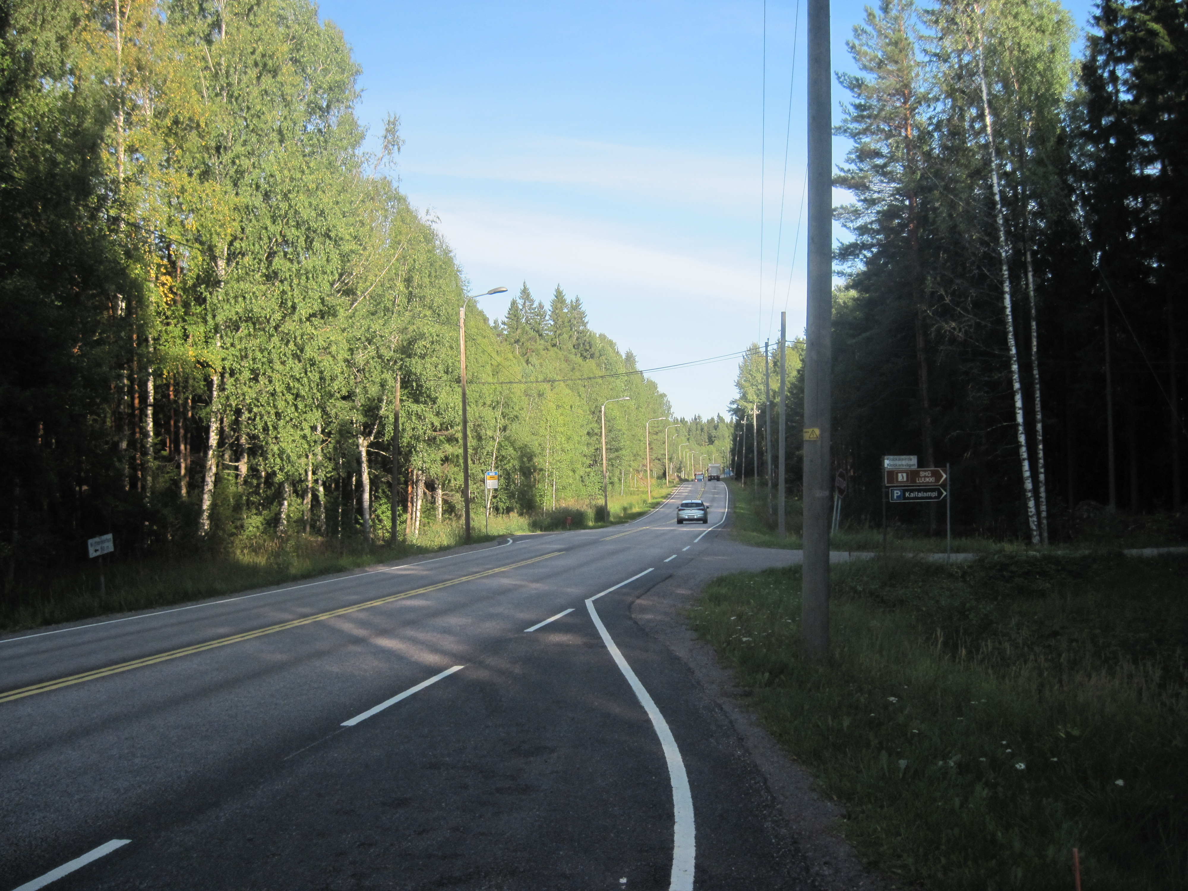 Vihdintie (regional road 120 from Helsinki to Vihti) at Luukki, Espoo